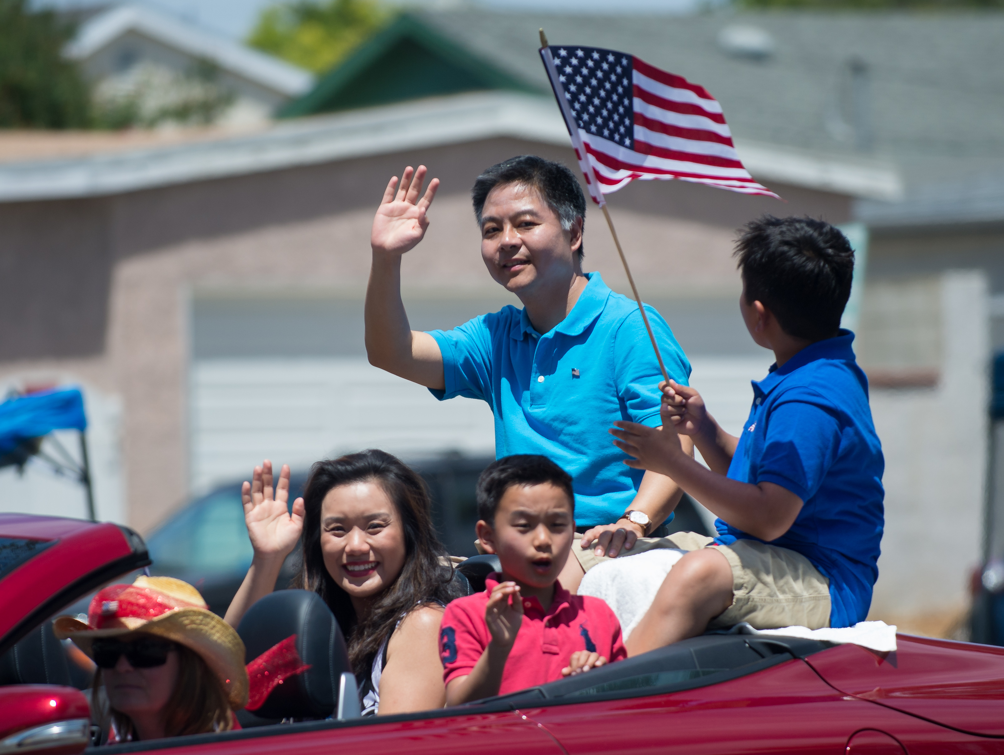 California State Senator Ted Lieu